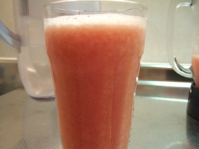 'otai, watermelon drink from Tonga